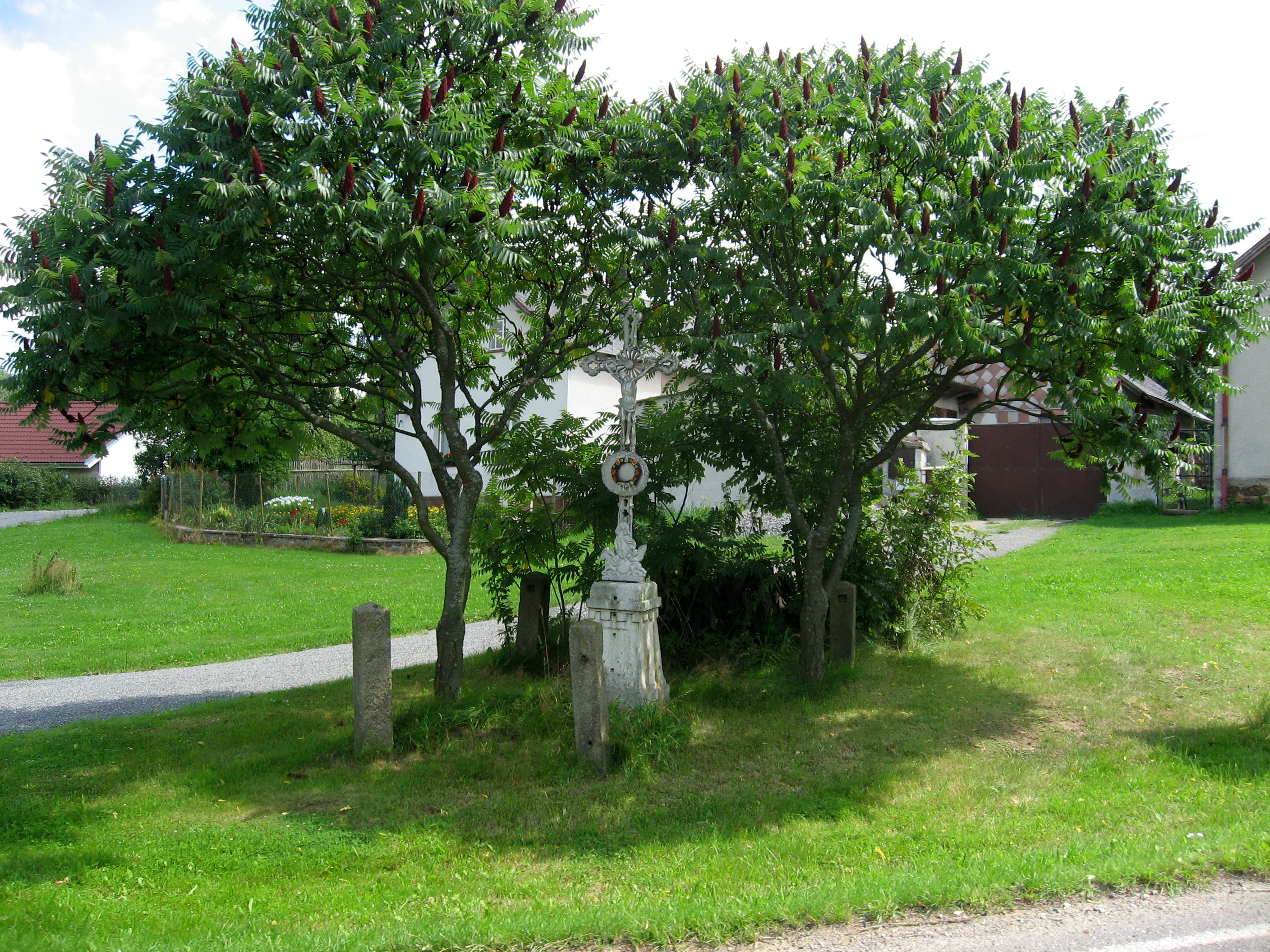 Wayside cross in Vysoká, Havlíčkův Brod District, Czech Republic